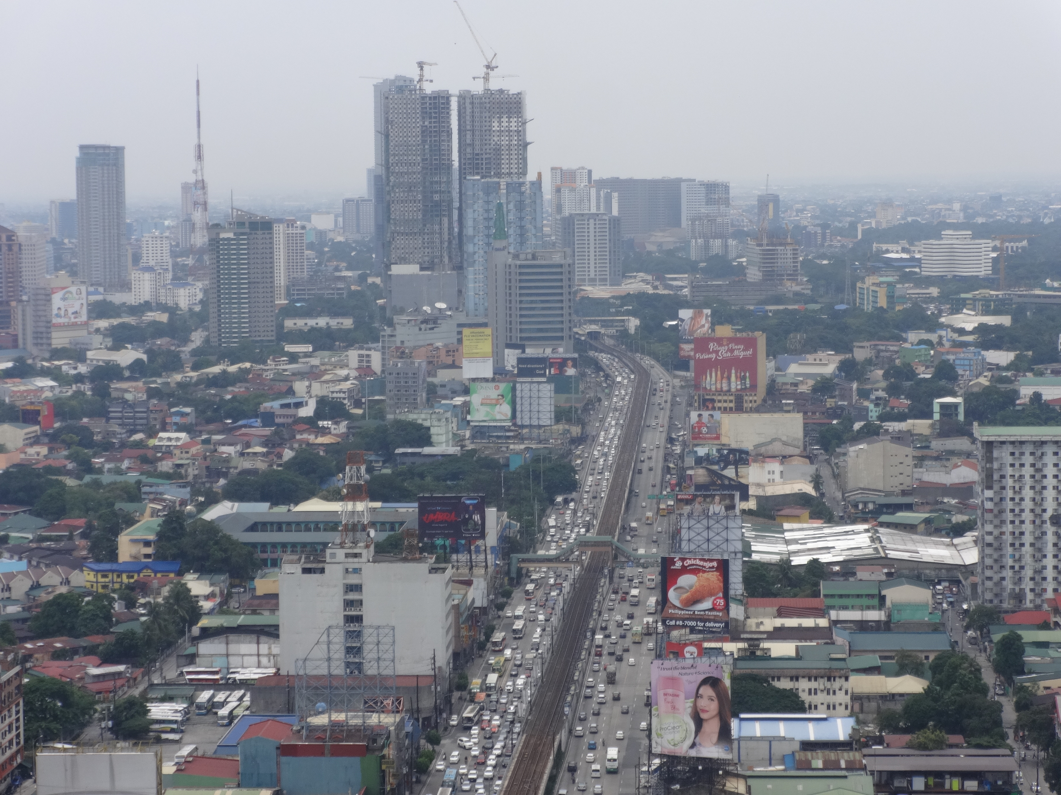 Quezon City skyline with Epifanio Delos Santos Avenue (EDSA, AH26).